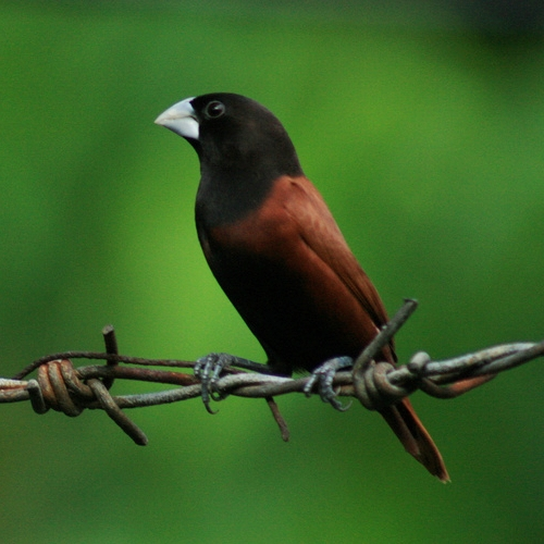 A wild Black-headed Munia on Cebu, Philippines.